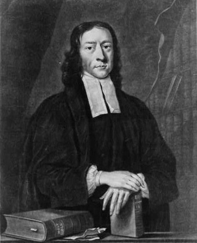 John Wesley (1703-1791), founder of Methodism